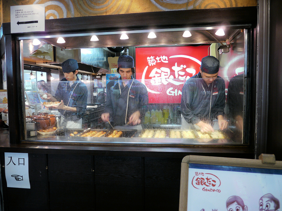 By Ken_Works - View more at